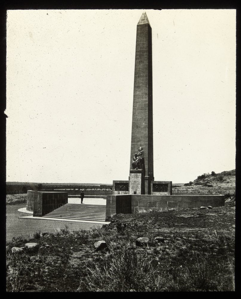 Shows man standing at the top of the steps, with his hat off, viewing the monument of an Afrikaner woman holding her child with her husband by her side; the monument is flanked by a large obelisk structure.